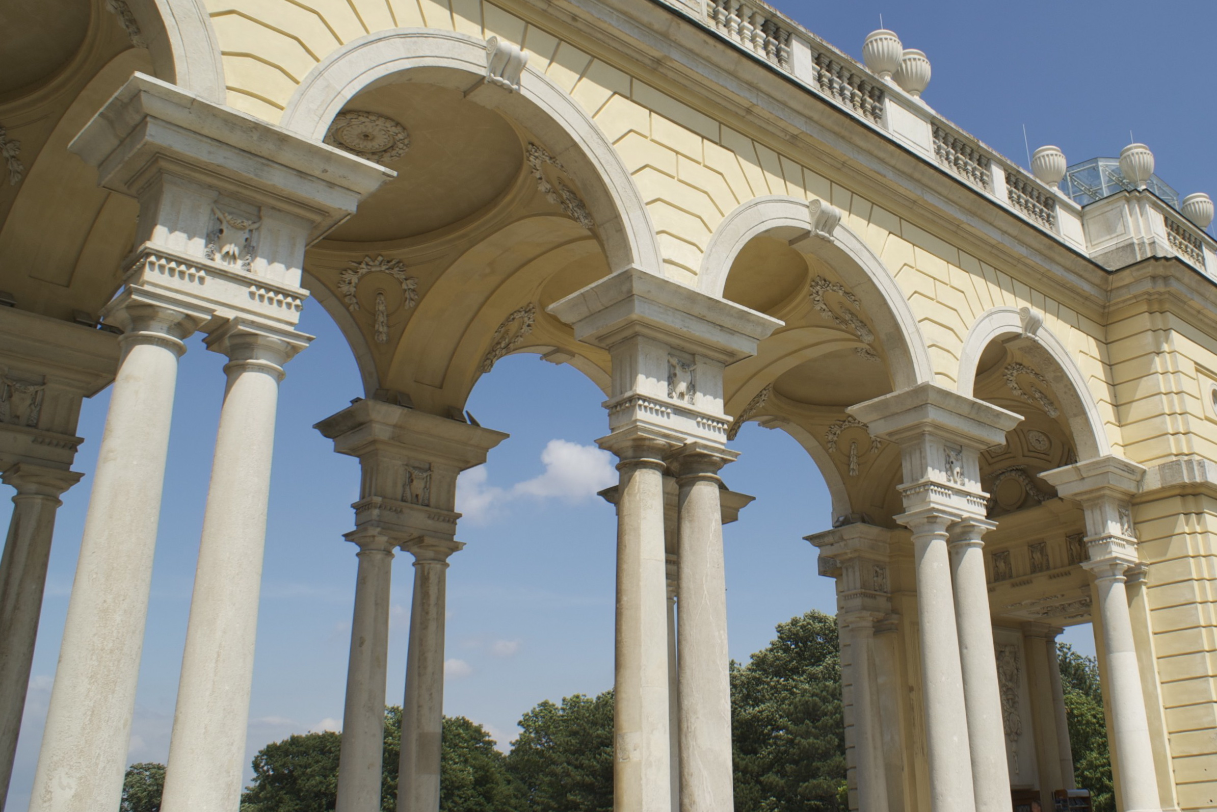 Gloriette in Schönbrunn